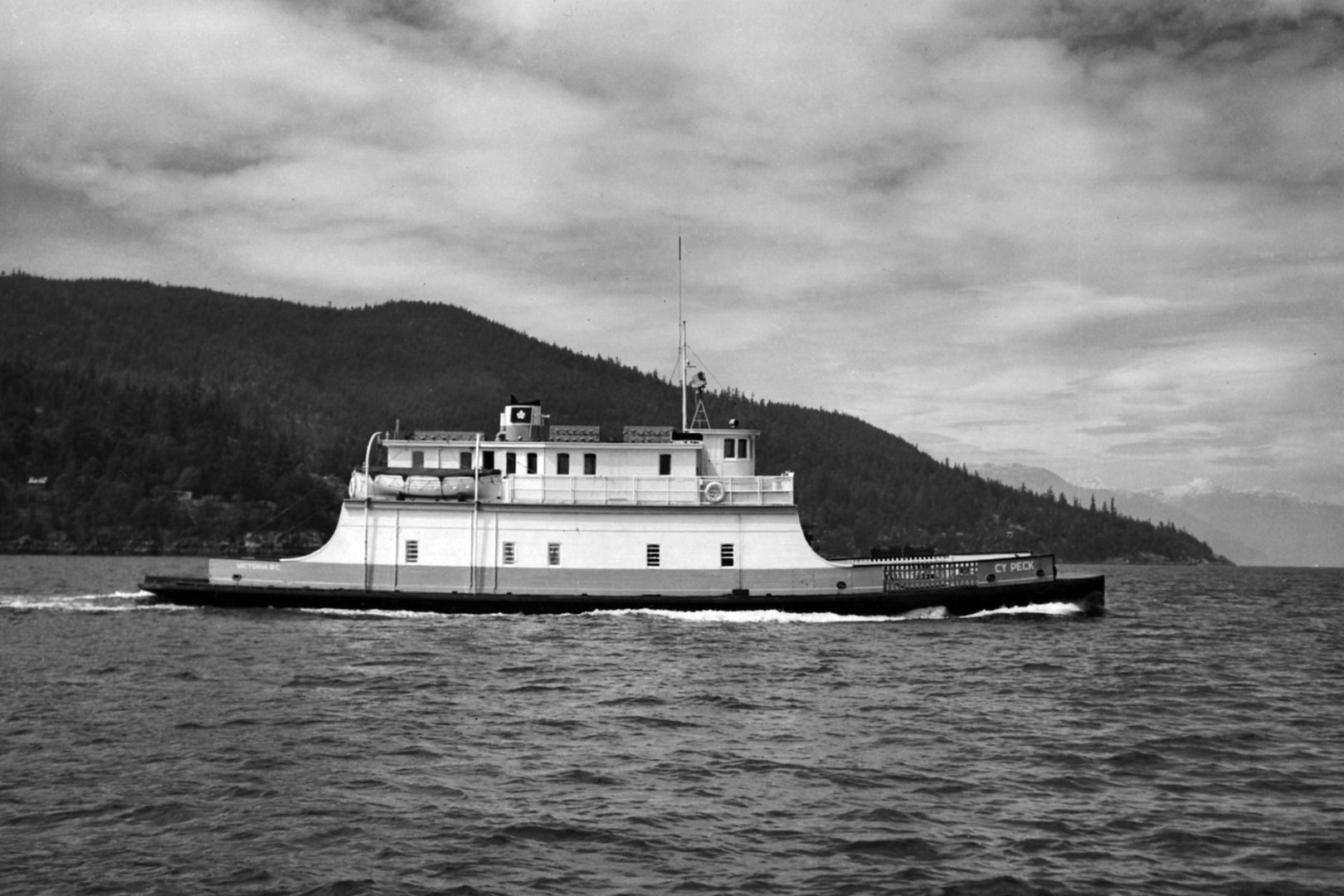 M/V Cy Peck - c1962 - Howe Sound (BC Dept of Travel Ind, Govt of BC) DOT Collection